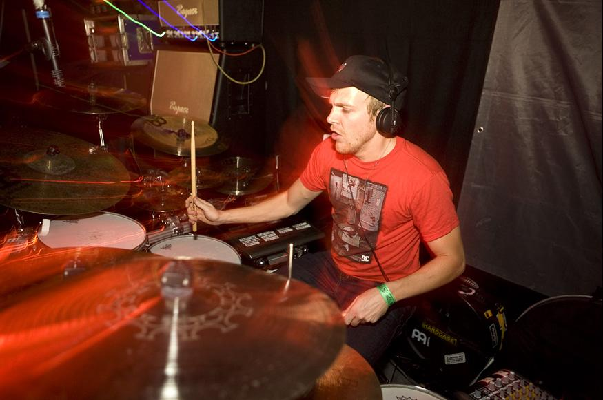 Dutch drummer Eric Spring in ´t Veld of Intwine performing at the Köln Underground concert on August 14th, 2009.